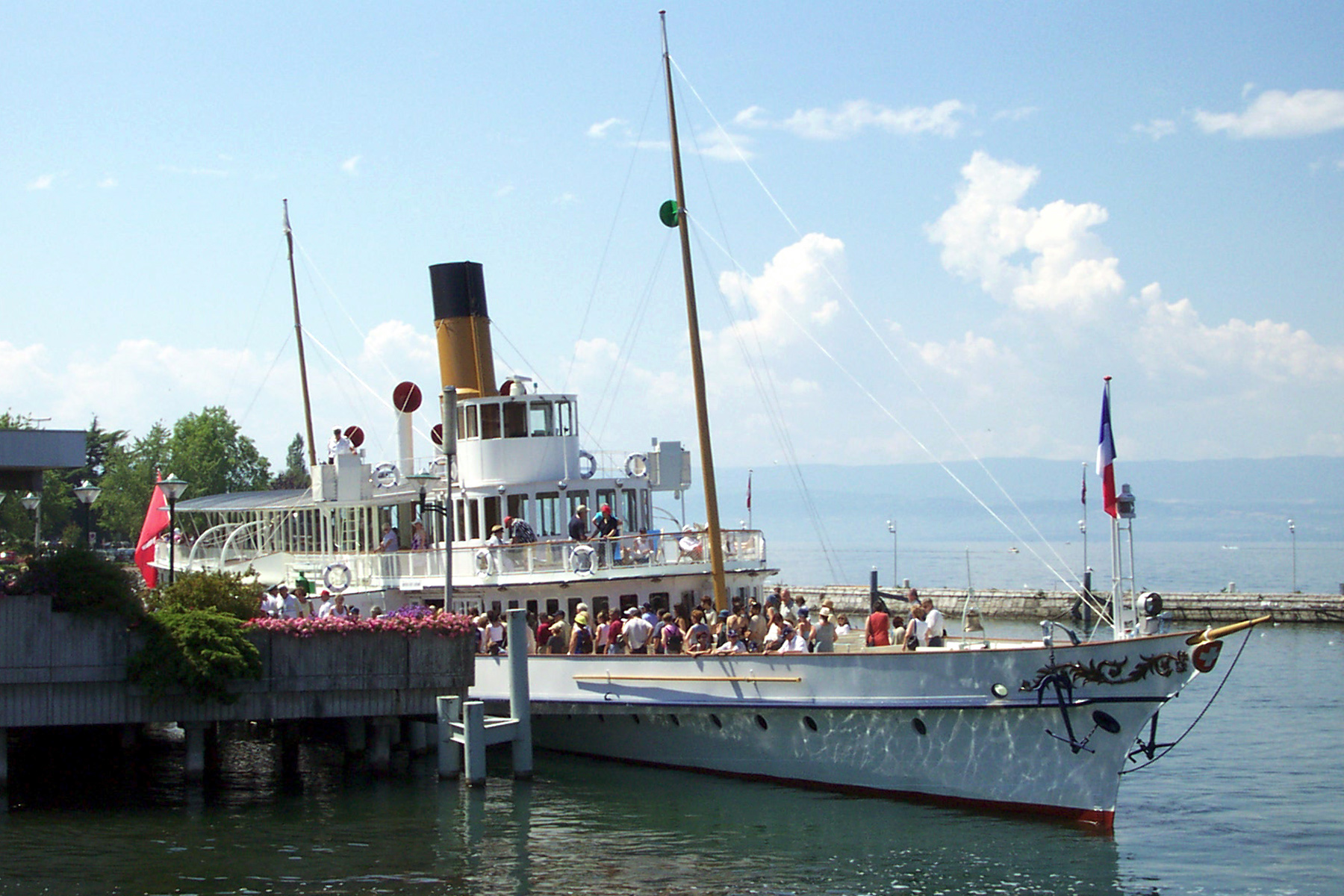 CGN paddle steamer Montreux (built 1904) leaving Évian-les-Bains, Haute-Savoie, France in July 2002.